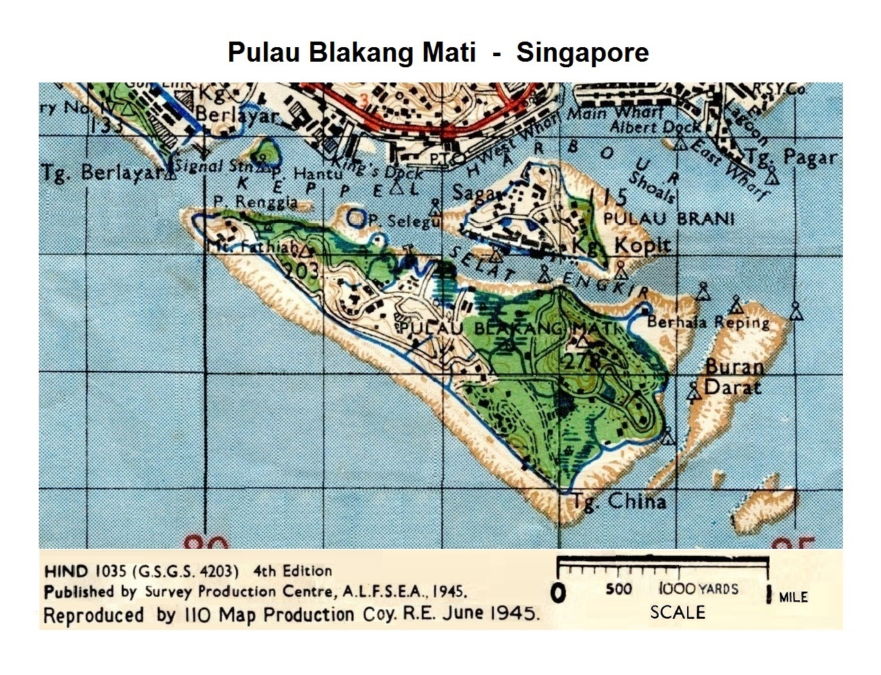 Detailed map with contour lines